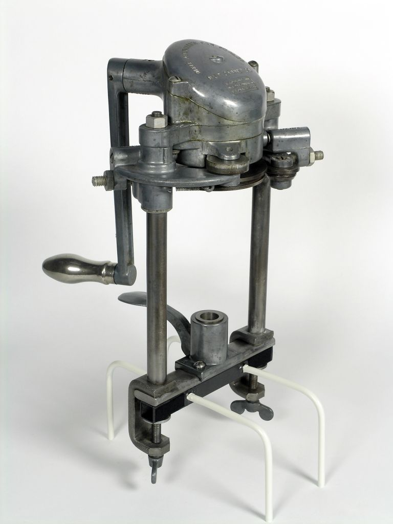 Dixie Can Sealer for Home Use. Two cylindrical rods with clamps at one end and round disk to hold base of can. Long crank handle to rotate can sealing disk. 'Dixie automatic can sealer' in raised letters on top. Editing Undertaken: Auto Levels, Unsharp Mask